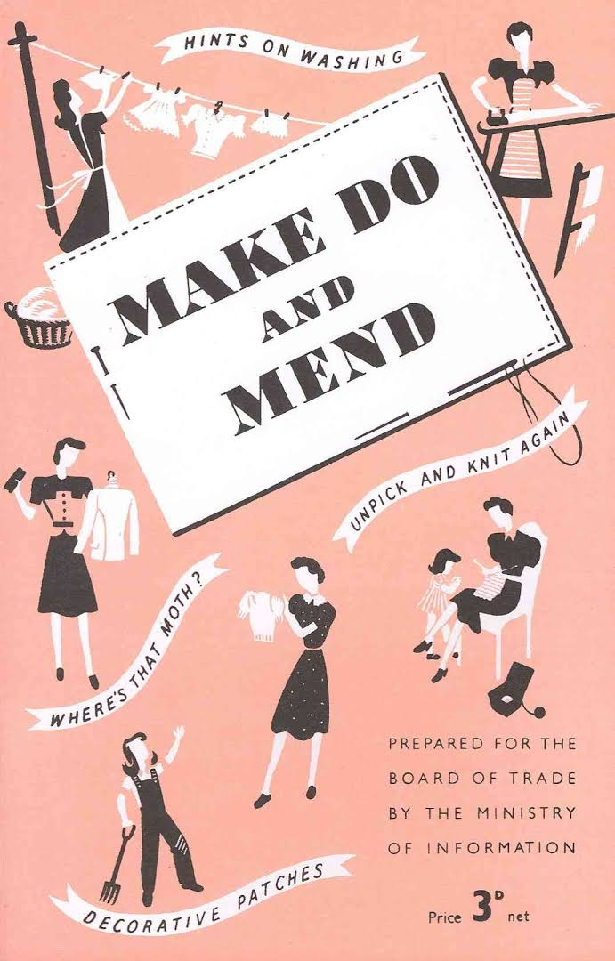 Cover of a "Make Do and Mend" pamphlet, as designed by Jill Greenwood. Make Do and Mend was a series published by the UK Government's Ministry of Information in 1943. These iconic publications provided tips to housewives on harsh rationing, giving advice on how to stay frugal yet chic by reusing old clothing, creating ‘decorative patches’ to cover holes in worn garments; unpicking and re-knitting old jumpers, and protecting one's garments against the ‘moth menace’.